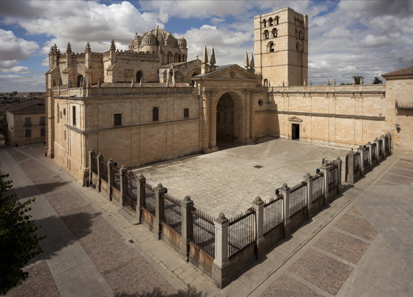 Catedral; Zamora, Castilla y León, Zamora, Spain; La fachada norte, principal; ref: PM_073530_E_Zamora; Catedral de Zamora; Photographer: Paul M.R. Maeyaert; © Paul M.R. Maeyaert; ; Cultural heritage; Cultural heritage/Cathedral; Europeana; Europe/Spain/Zamora; Wiki Commons